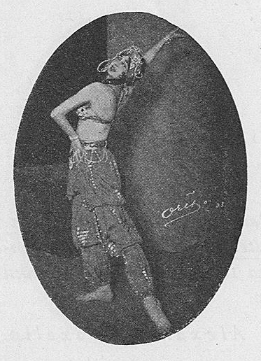 Finnish dancer and choreographer Airi Säilä, early 1930s.